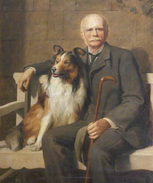 "The Hon. Mark George Kerr Rolle...This portrait was presented to the Borough of Great Torrington by inhabitants of the town and neighbourhood in grateful remembrance of his life and character". (Inscription on gilt plaque on frame). Portrait by Sir John Collier (d.1934), displayed in Great Torrington Townhall. The principal seat of the Rolle family had long been Stevenstone, in the parish of St Giles in the Wood, adjacent to the parish of Great Torrington. The Rolles were lords of the manor of Great Torrington and owned much land within it and around it, and were the largest landowners in Devon by the end of the 19th century. Many held the honorary position of Recorder of Great Torrington. Today a copy hangs in the boardroom of Lord Clinton's Clinton Devon Estates at East Budleigh, Baron Clinton having been the ultimate heir of the Rolle family. The painting appears to display a certain modesty of character in Mark Rolle, the largest landowner in Devon, who poses in an unassuming manner hatless, with a simple working collie sheepdog, holding in his left hand a shepherd's crook and a flat cap, attributes associated with the rural working class. Perhaps an oblique play on the famous portrait of Marie-Antoinette posing as a simple shepherdess. This contrasts with a large and grand portrait, in Barnstape Guildhall, (see File:MarkRolleByHenryRichardGraves.png) of him as a young man posing with his pack of highly-bred foxhounds (the Stevenstone Foxhounds hunt) in the archetypal aristocratic manner.